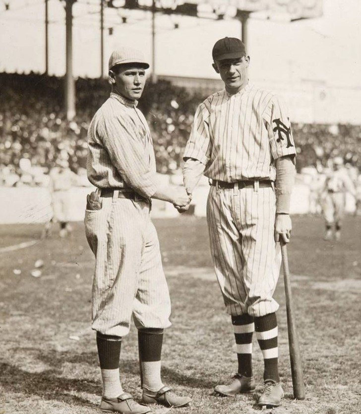 Baseball players Smoky Joe Wood (left) and Rube Marquard (right) during the 1912 World Series